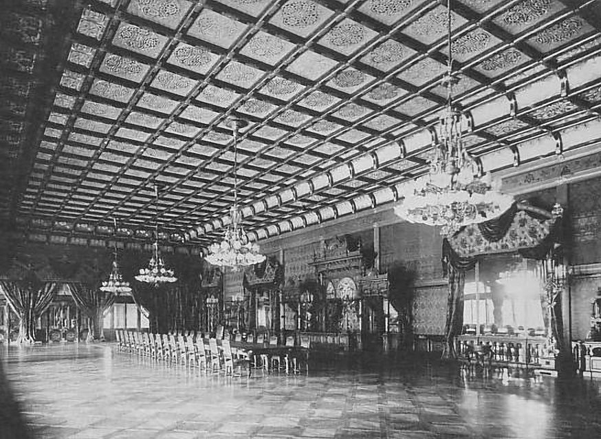 Houmei-Den of Meiji Palace